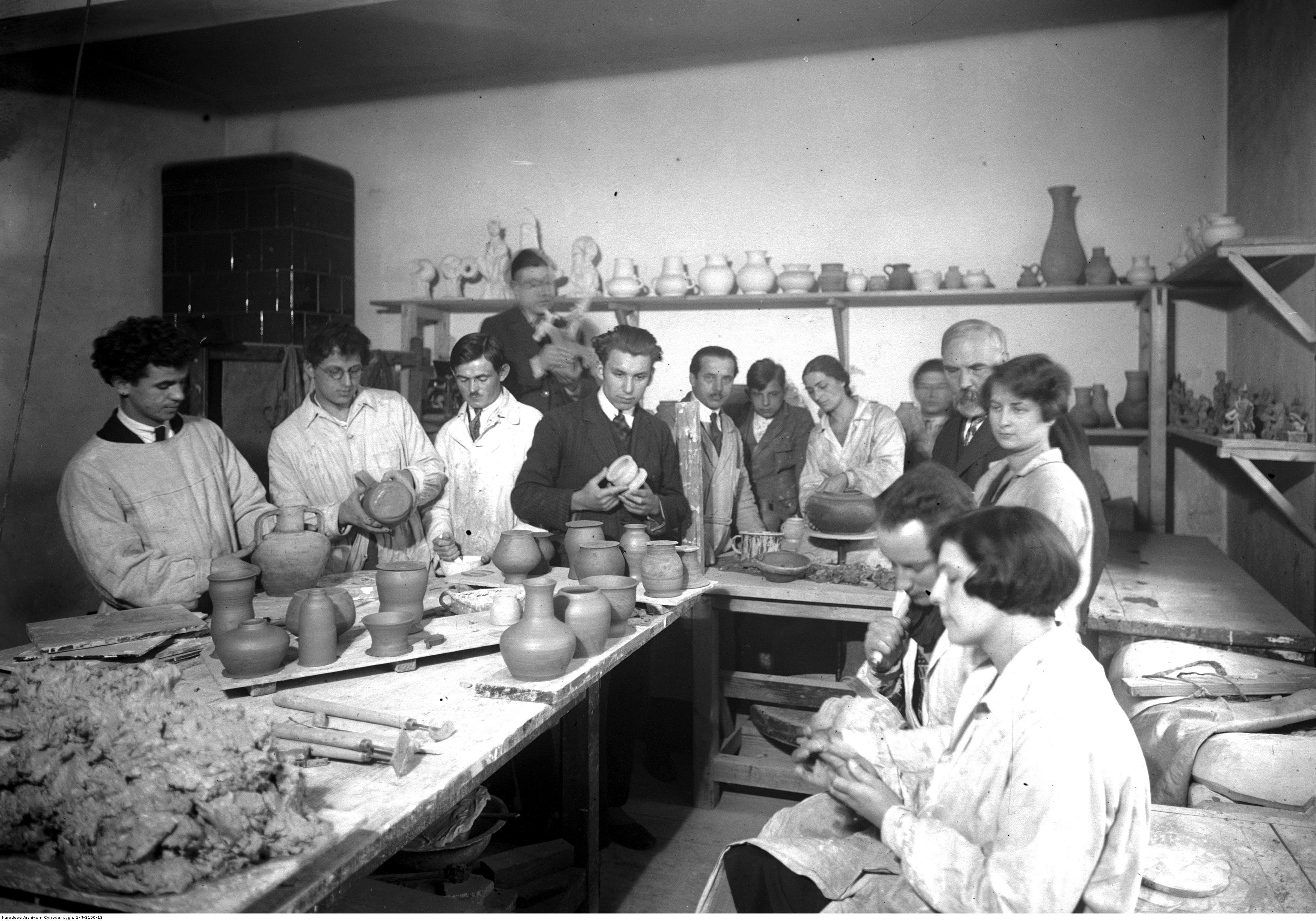 Students in the studio of Professor Konstanty Laszczka.